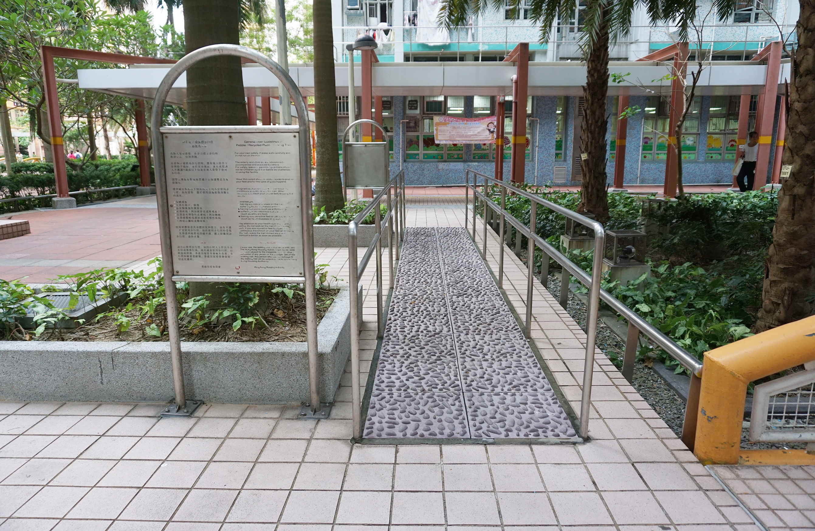 Oi Tung Estate in Shau Kei Wan, Hong Kong.